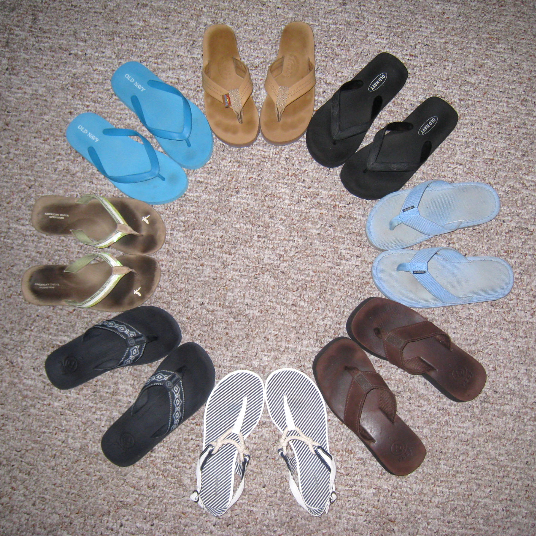 you can never have too many sandals :)